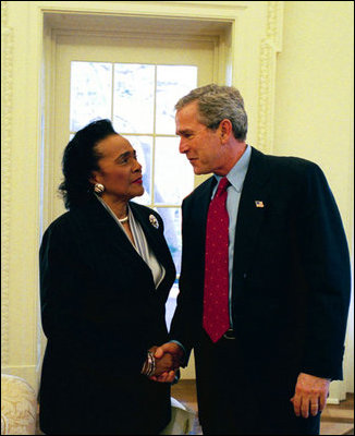 George W. Bush and Coretta Scott King, 25 February 2004 in the White House.